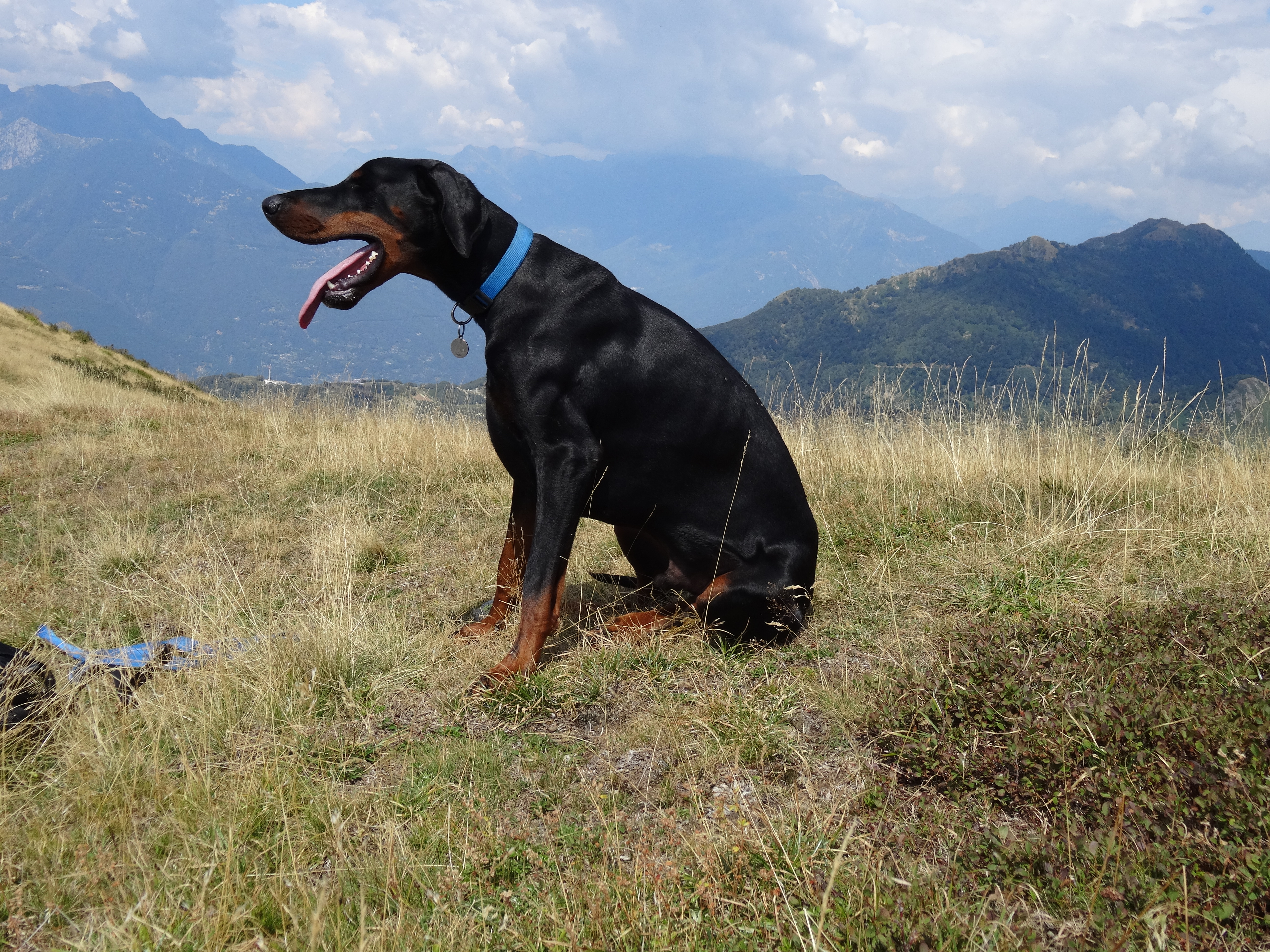 Dobermann Male 1y 6m